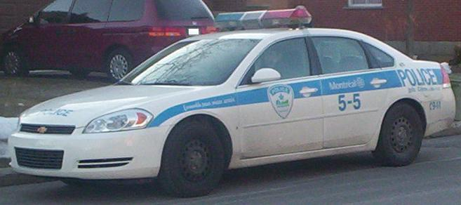 2006-2009 Chevrolet Impala Montreal Police photographed in Pointe-Claire, Quebec, Canada.